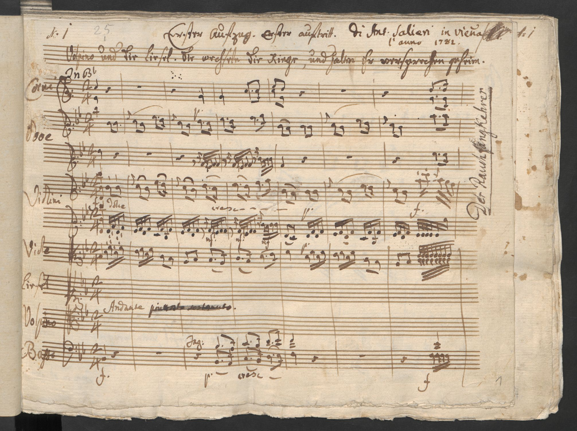 The beginning of the opera 'Der Rauchfangkehrer' (first scene, first act) by Antonio Salieri - autograph